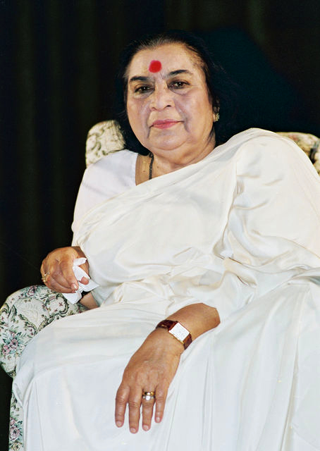 Public Sahaja Yoga Program, Prague, Czech Republic